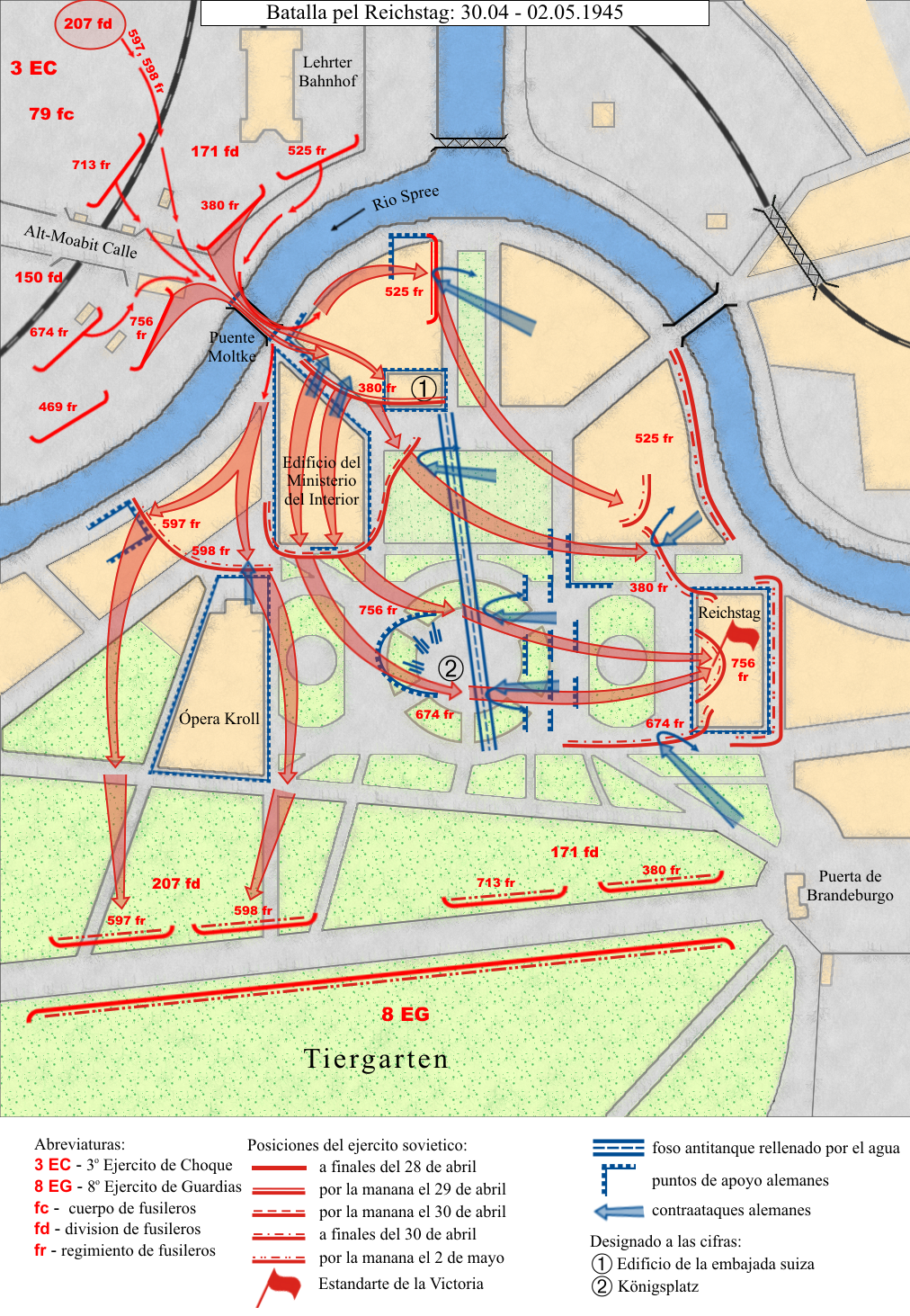 Map of Battle for the Reichstag